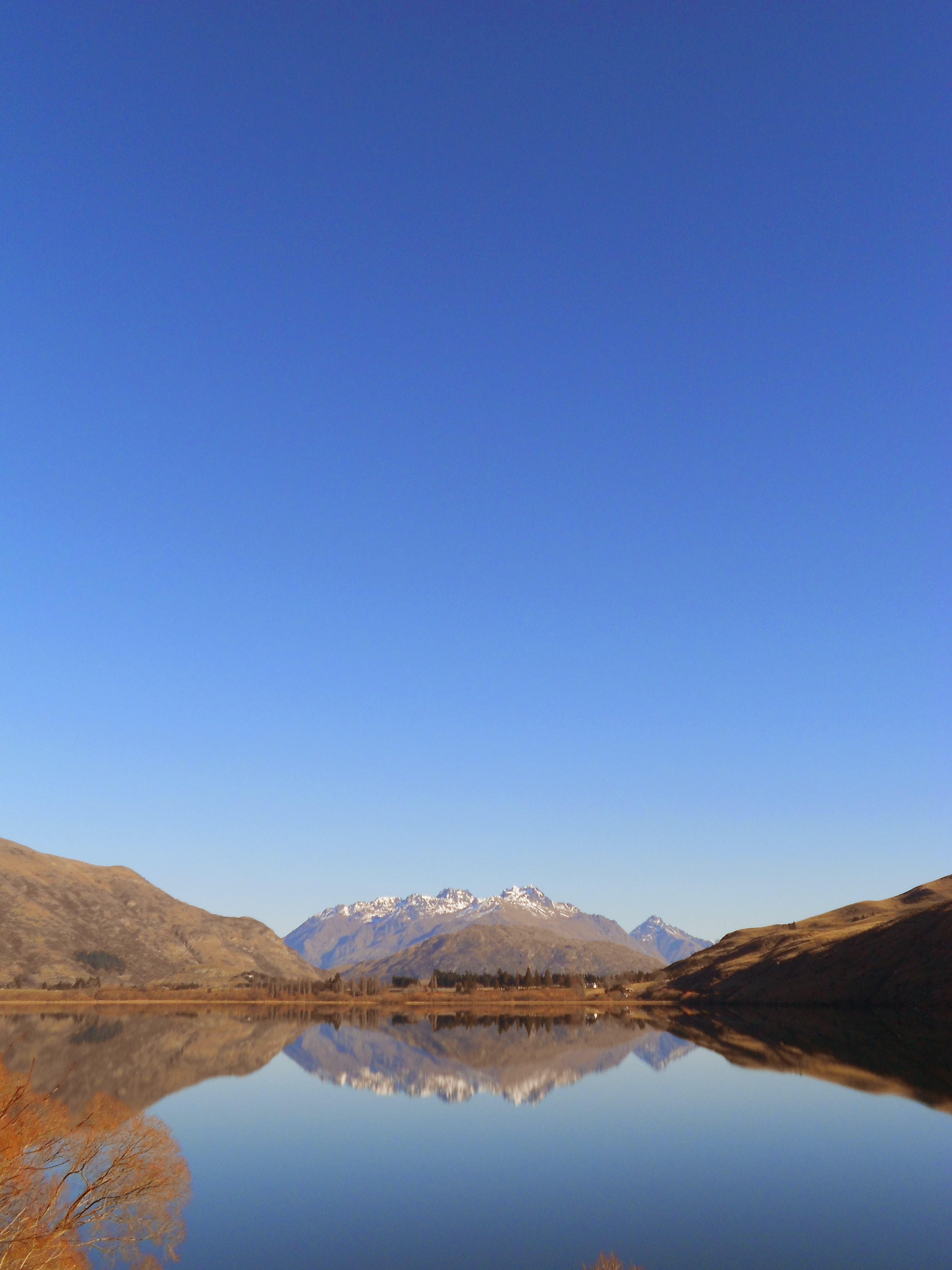 View from the north shore looking southwards across Lake Hayes towards The Remarkables.